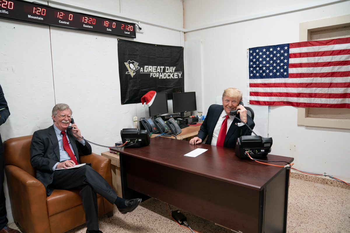 President Donald J. Trump, joined by National Security Advisor John Bolton, speaks on the phone with Iraq Prime Minister Adil Abdul-Mahdi Wednesday, December 26, 2018, during his visit to Al-Asad Airbase in Iraq. (Official White House Photo by Shealah Craighead)